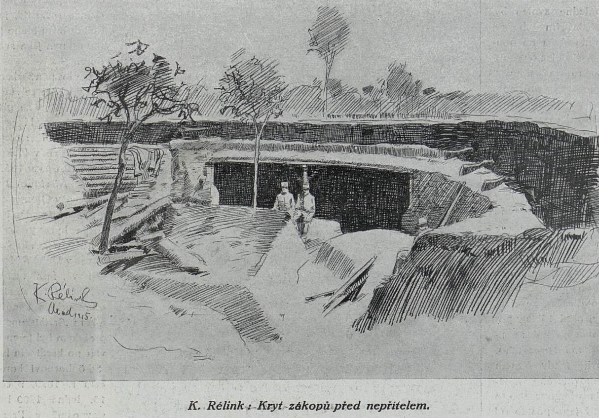 Karel Rélink (1880-1945), drawing from the 1st WW